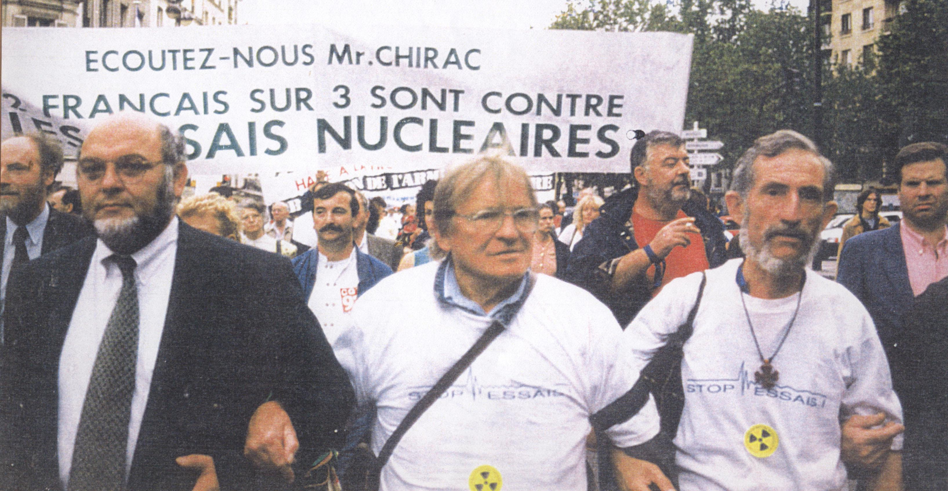 Demonstration against French nuclear tests, Paris, France. Robert Hue, leader of the Communist Party, Jean-Pierre Lanvin and Jean-Baptiste Libouban are in the front.